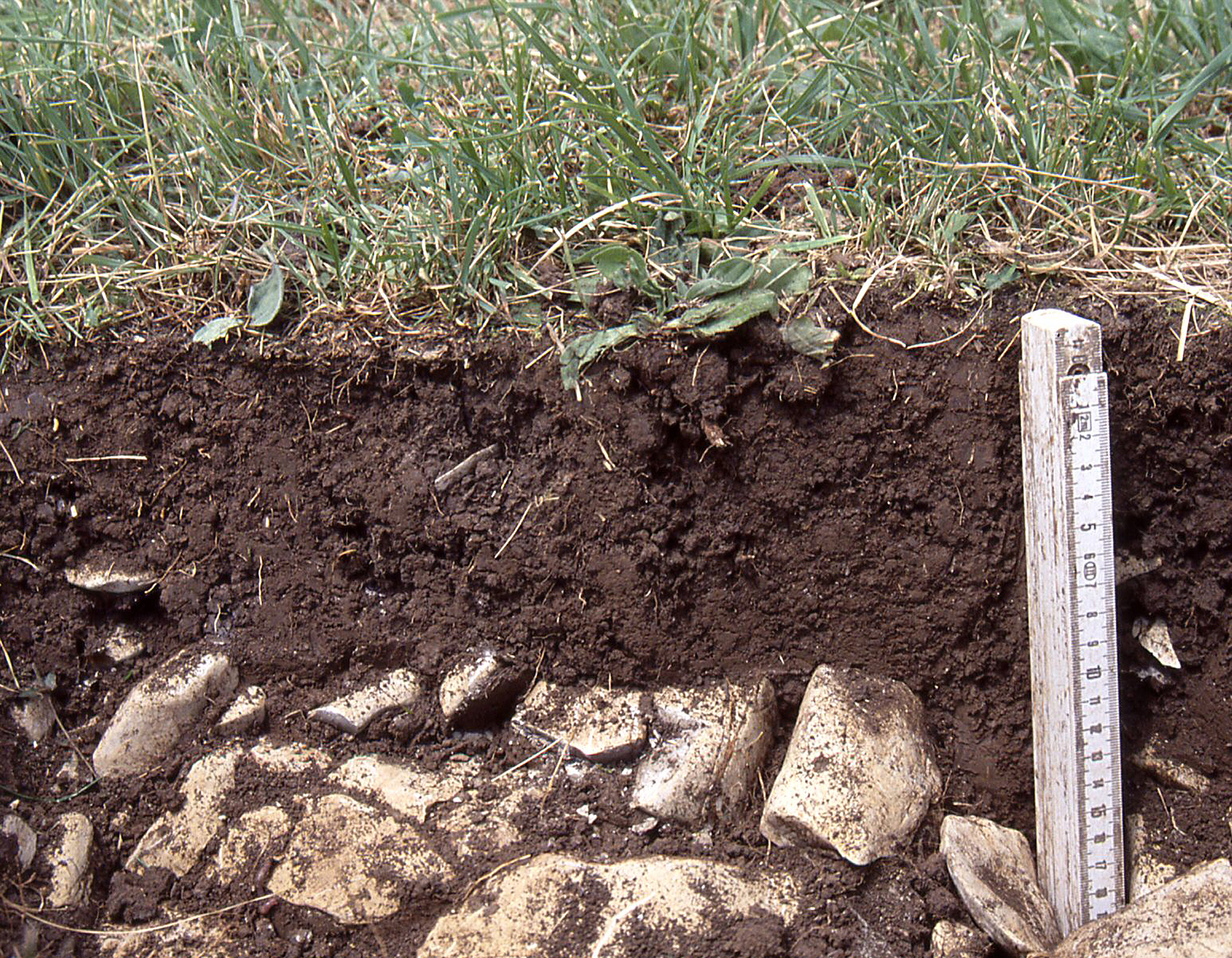 Rendzina, extremely thin topsoil on the plain „Heufeld”, middleSwabian Alb. The plain Heufeld is completely cultivated by villagers of Ringingen (community of Burladingen). The plain, next to the northern cuesta, is the largest closed area of the so called “Schichtflächenalb”, the second lowest of 8 layers of the upper lithostratigraphic unit of the South German Jurassic, (ox2). Rendzina is a humous, fine soil, with only little decarbonization, tending to drought, which developed very slowly by a mere 10-20 cm in tenthousand years. Soil on woods tends to become Brown Earth.